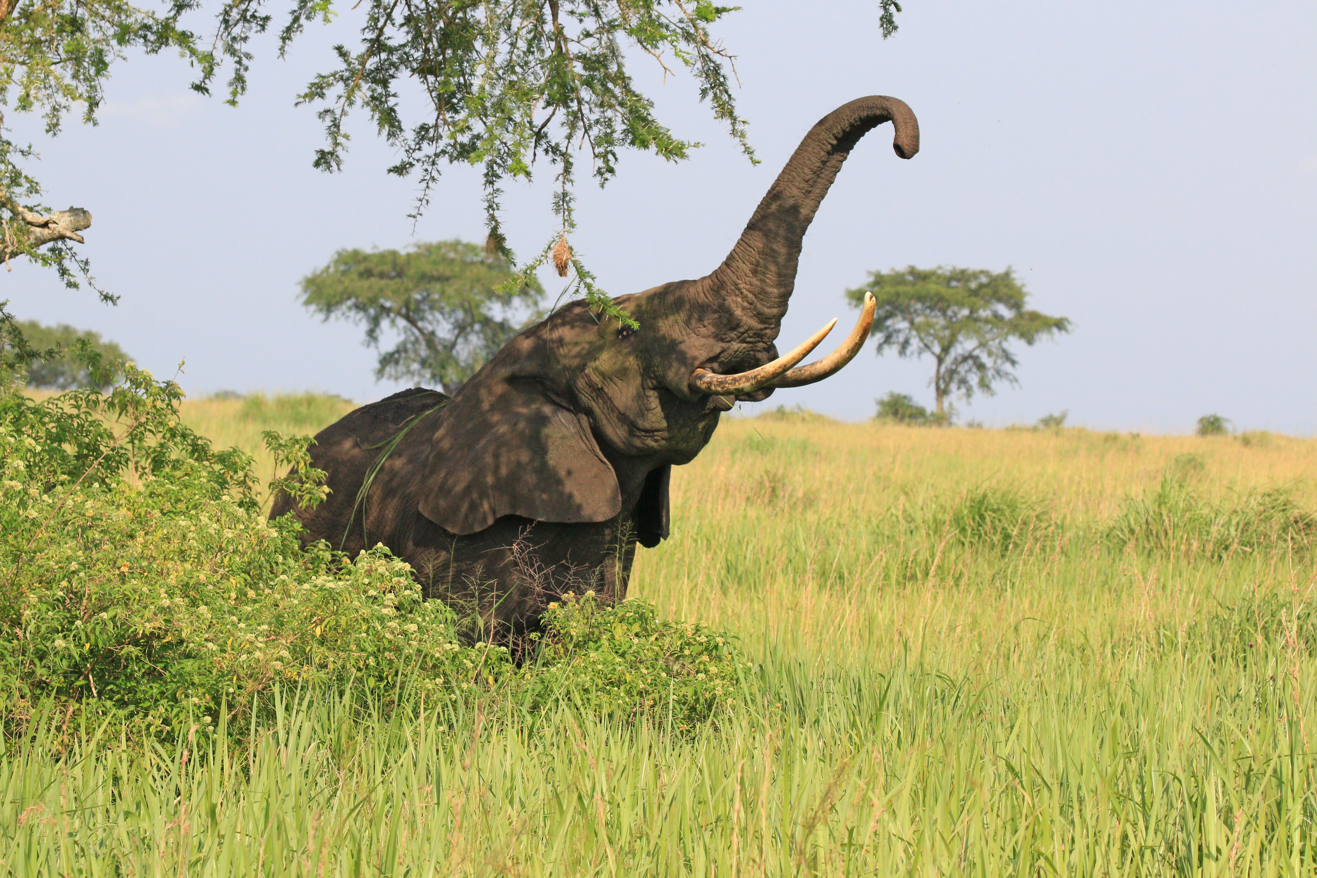 African elephant (Loxodonta africana), feeding, Queen Elizabeth Park, Uganda